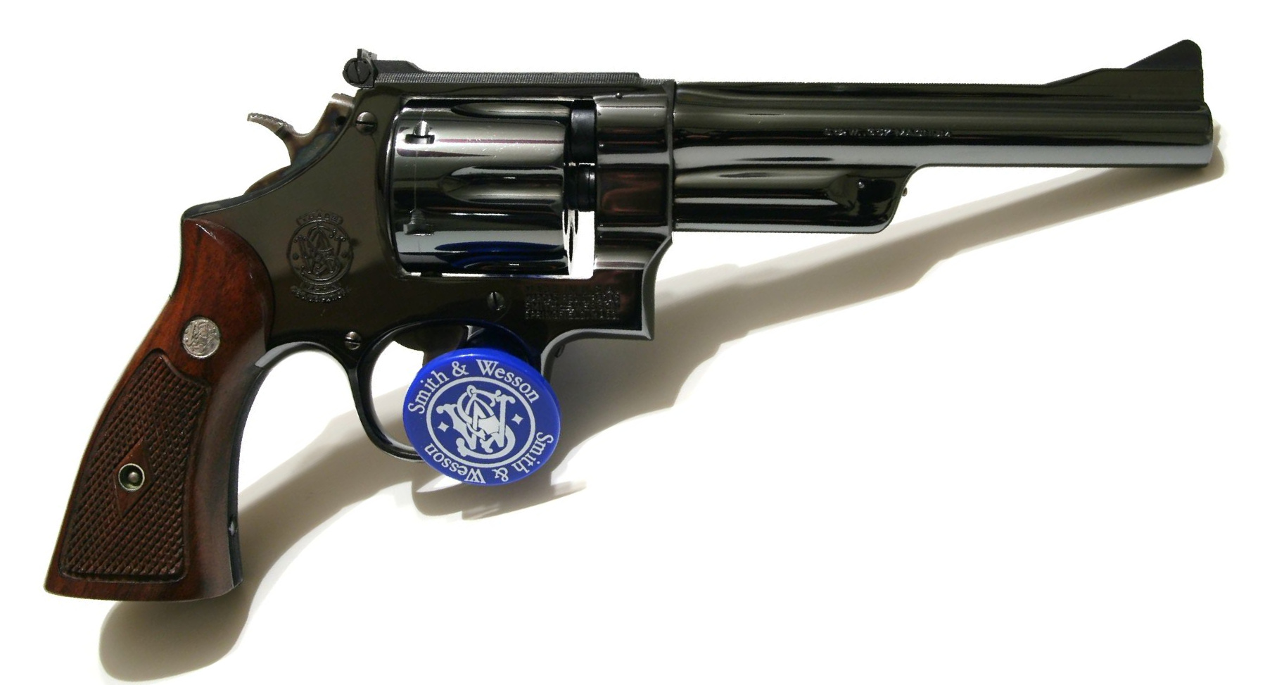 S&W Pre 27 Six Inch